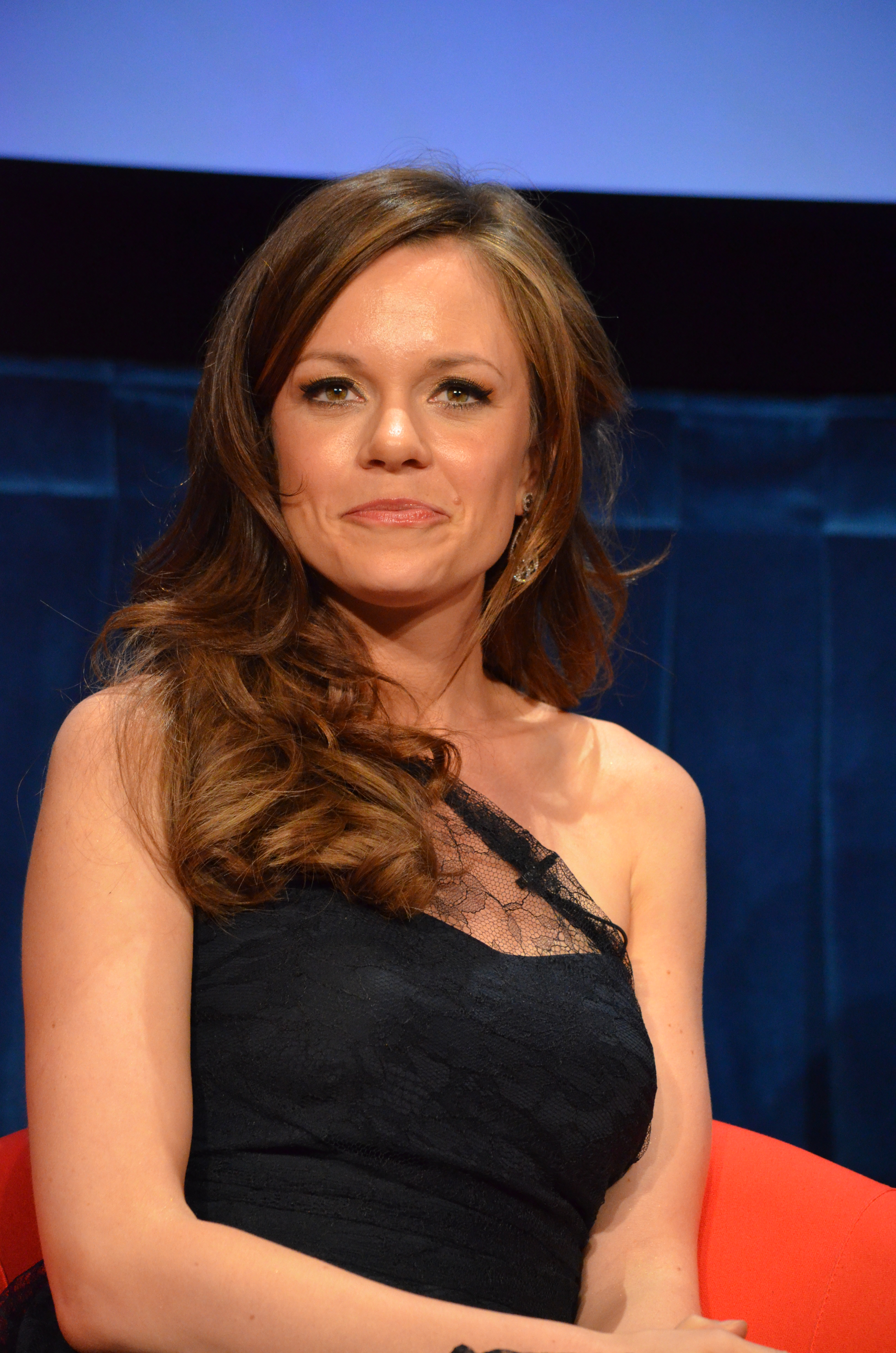 Rachel Boston at the Paley Center, in April 2012